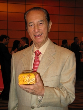 Stanley Ho